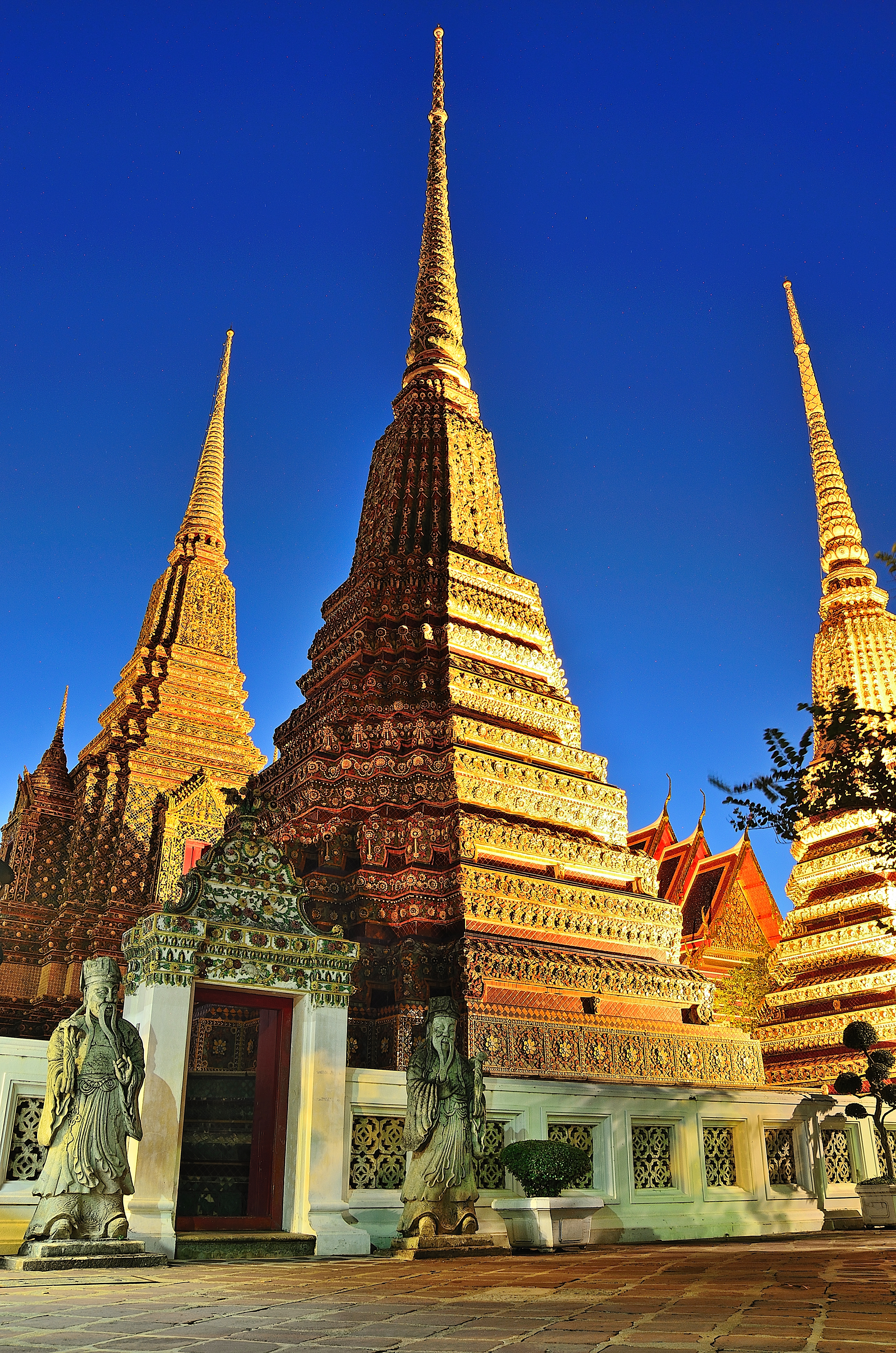 The three of four pagodas, which are dedicated to the four Chakri kings.